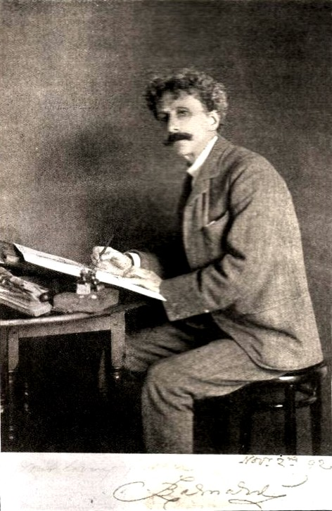 Portrait of Fred Barnard (1846-1896)